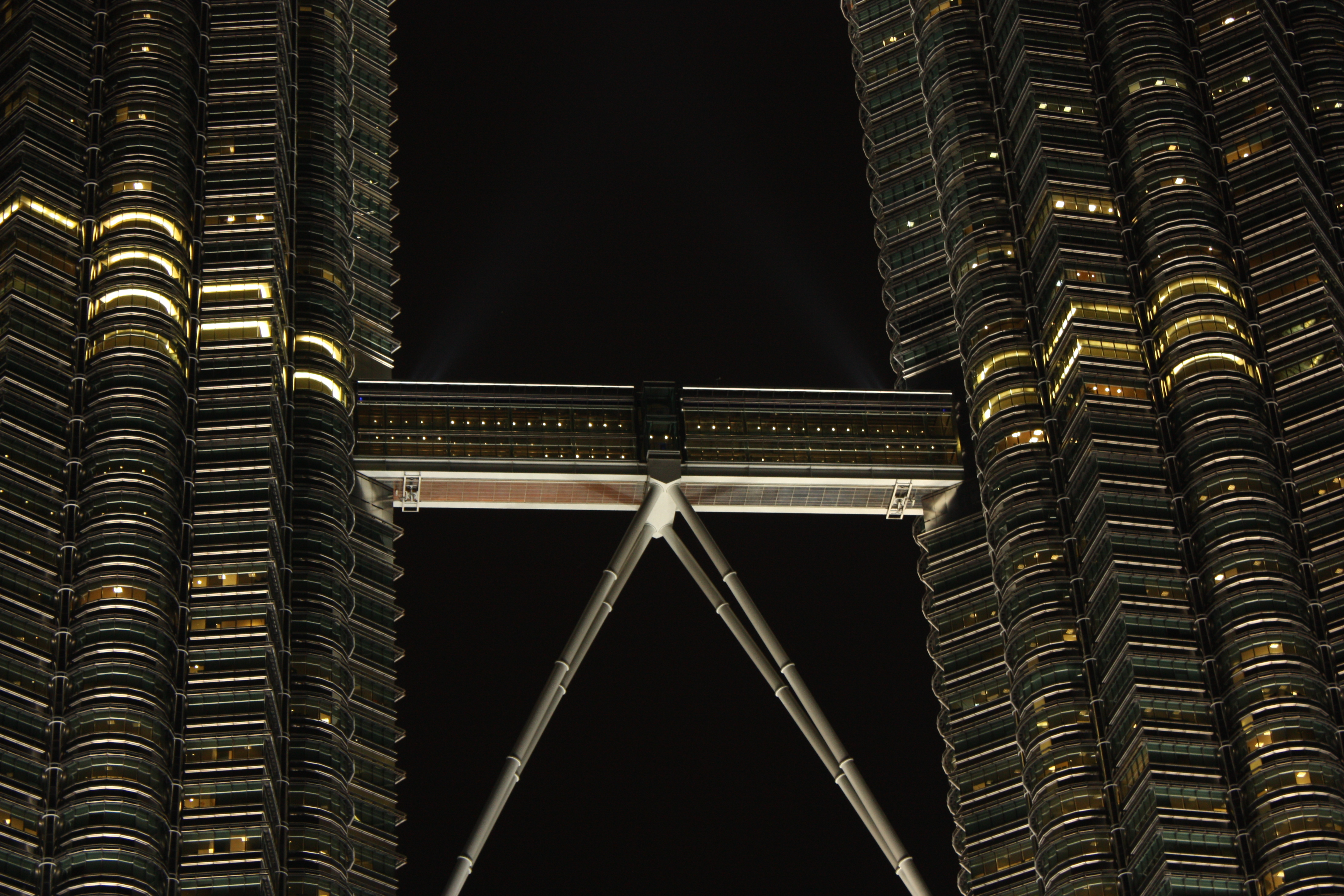 Skybridge connecting the two Petronas Twin Towers in Kuala Lumpur Malaysia. Taken by Wolfgang Holzem